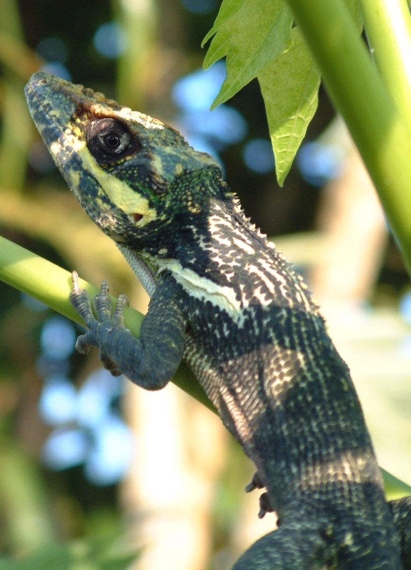 Wild knight anole in Florida.